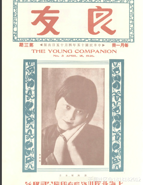 Cover of the #3 issue of Liangyou pictorial magazine, with actress Dawn Hui (黎明晖) (1909-2003) on the cover. She was the daughter of Li Jinhui.